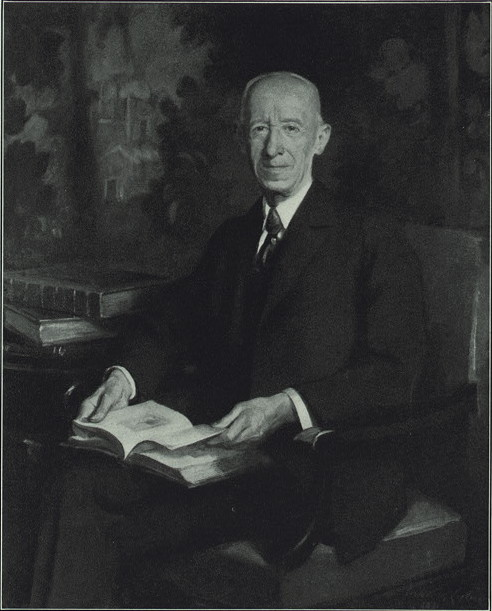 Dr. Wilberforce Eames, scholar and librarian, painted 1931 by DeWitt M. Lockman. Collection of the New York Public Library Digital Gallery